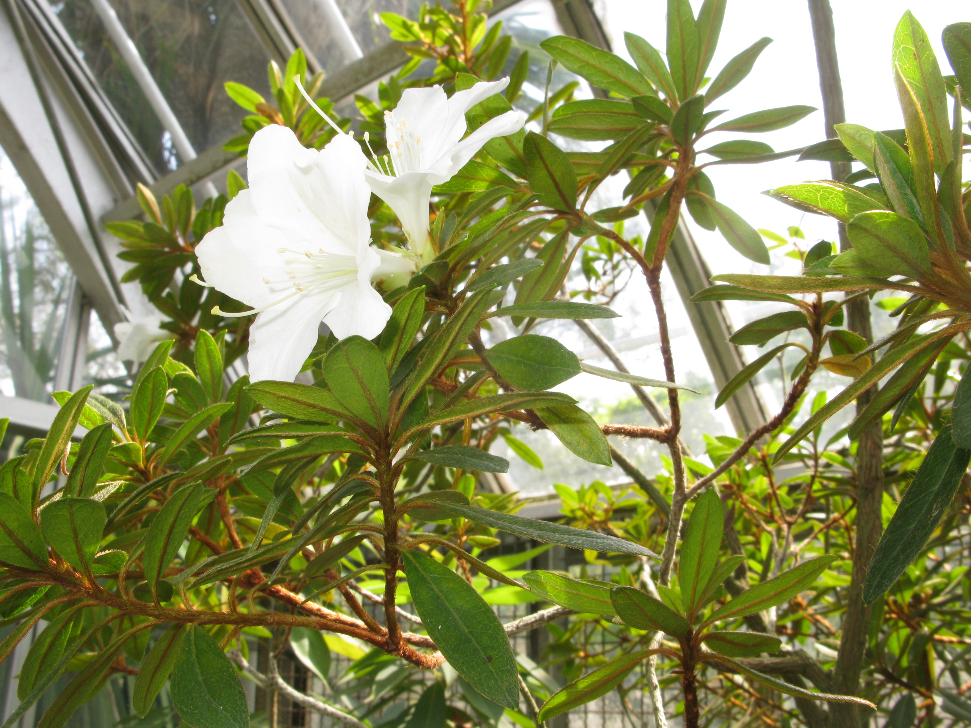 Rhododendron boninense, greenhouse, Koishikawa Botanical Gardens, the University of Tokyo, Japan